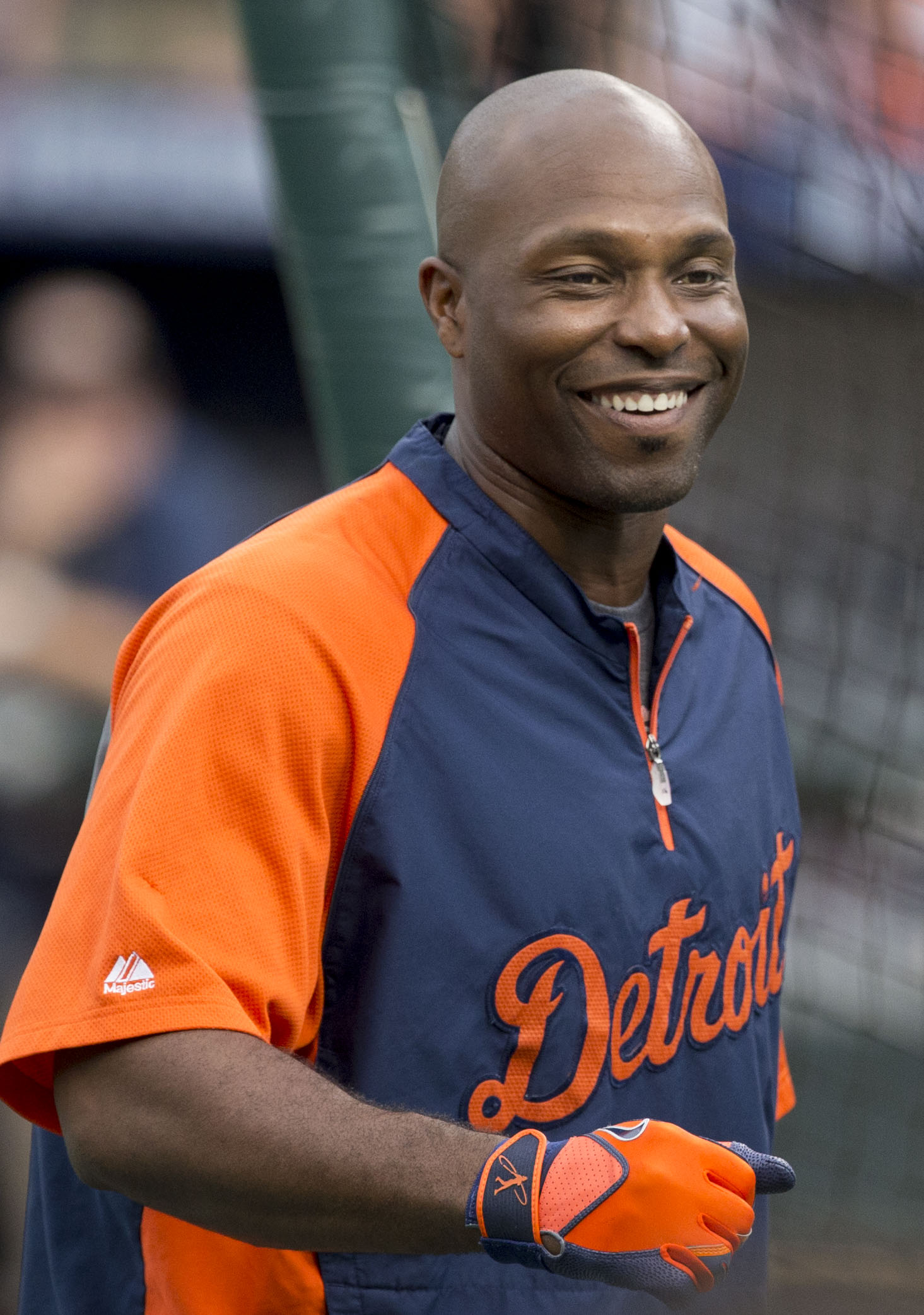 Tigers at Orioles 10/2/14 ALDS Game 1